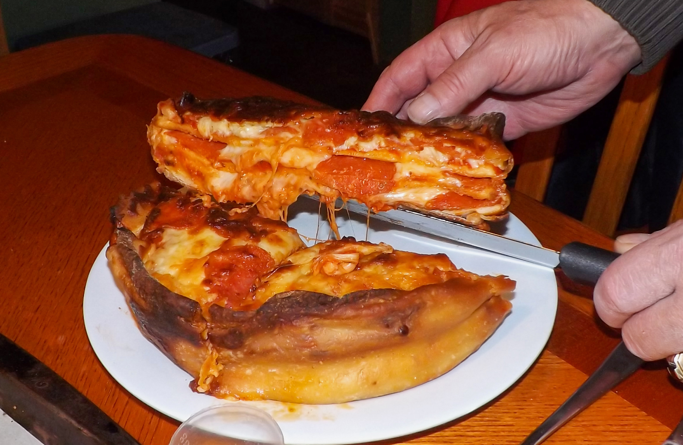 A home-made pizza cake being sliced